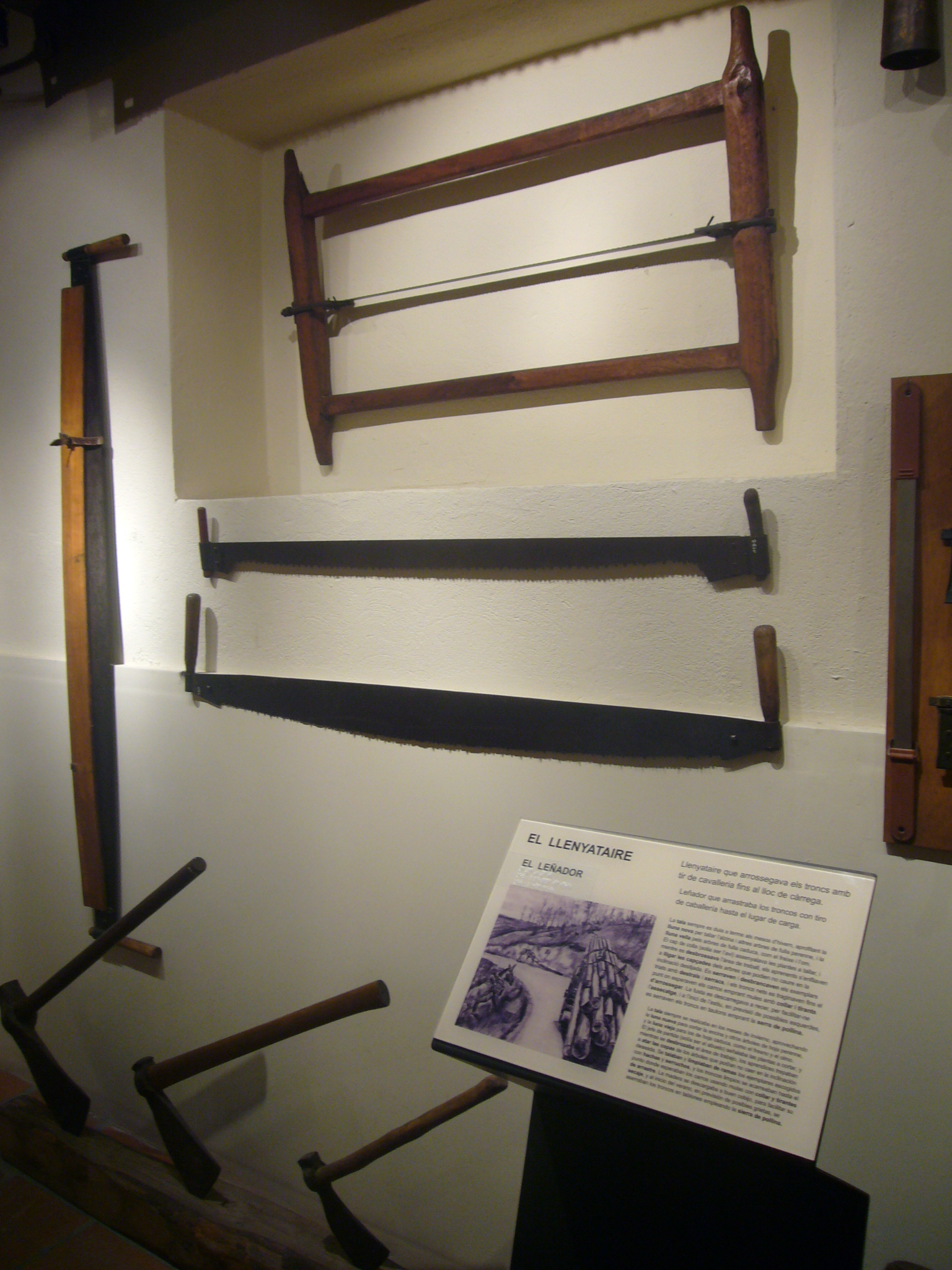 Muleteer's Museum ("Museu del Traginer") located in Igualada, Catalonia. Lumberjack tools.